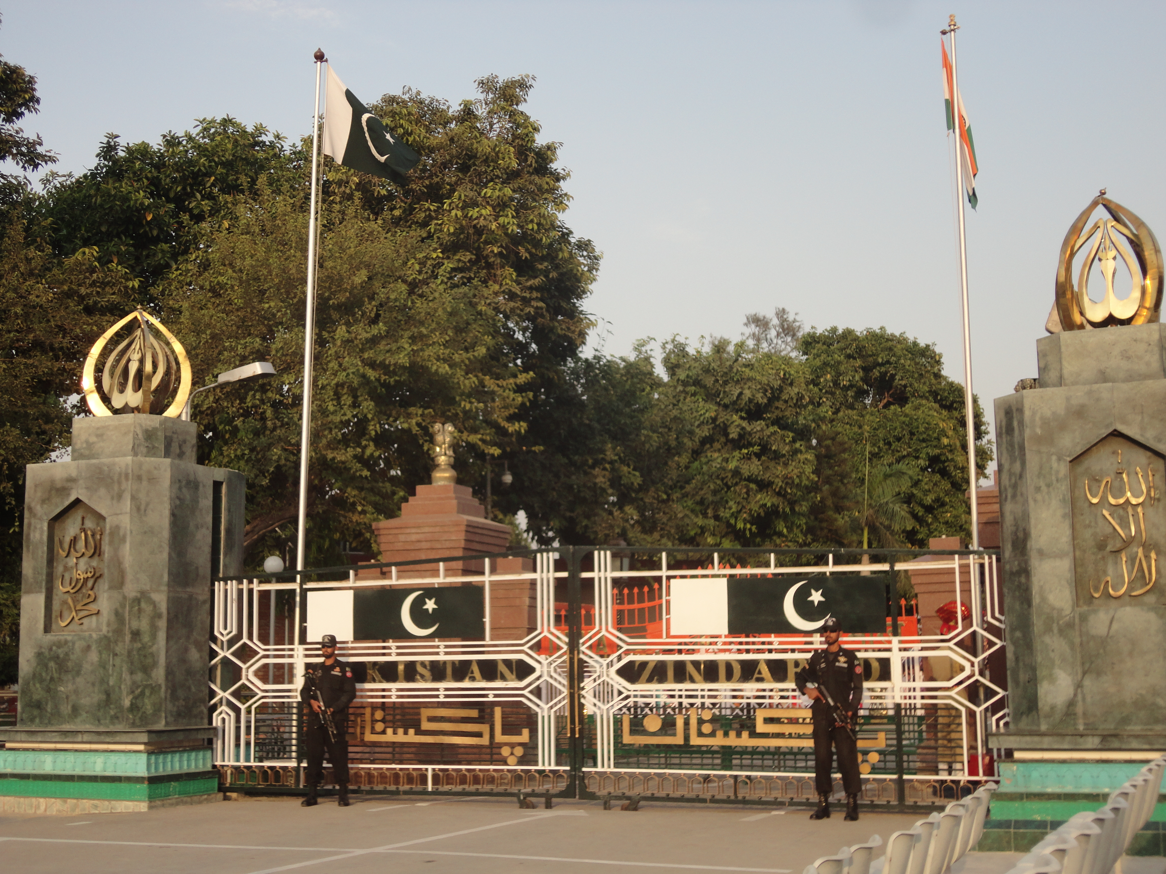 This picture was taken on the daily ceremony of Lowering the Flags.